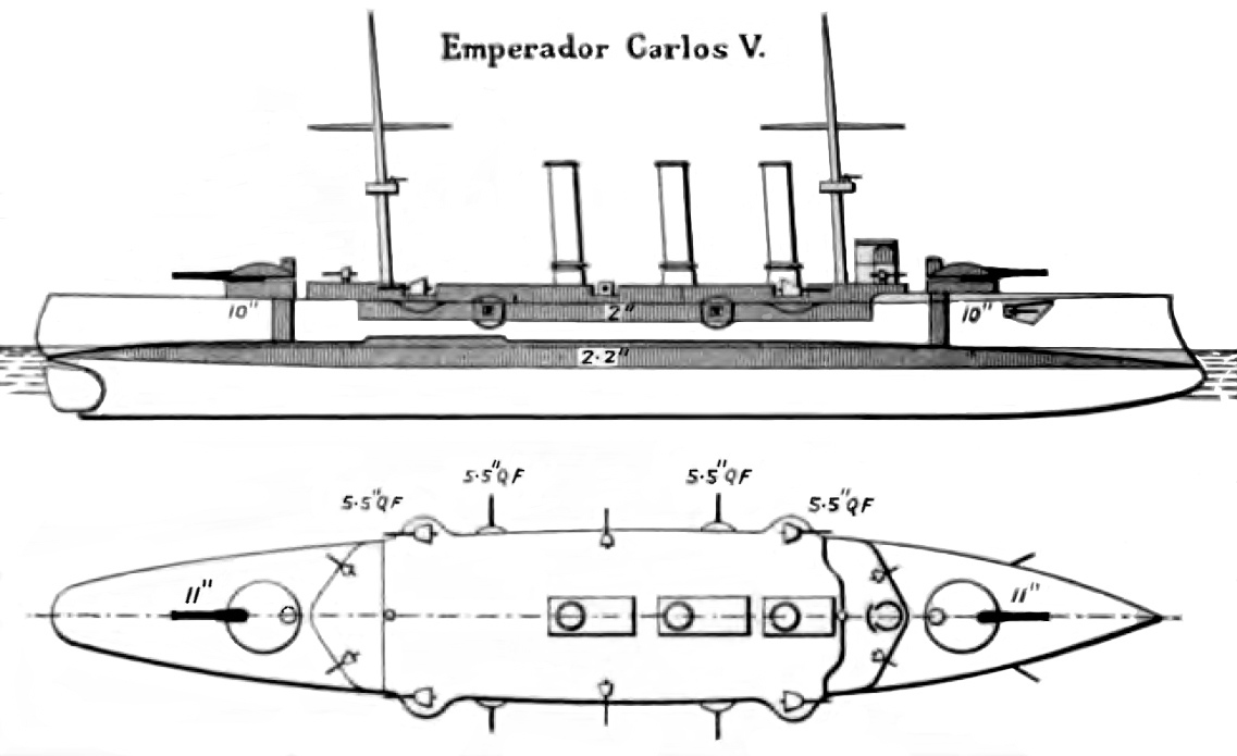 Diagrams depicting right elevation and deck plan of Spanish armoured cruiser Emperador Carlos V. Top diagram shows armour thickness in inches. Bottom diagram shows gun sizes in inches.